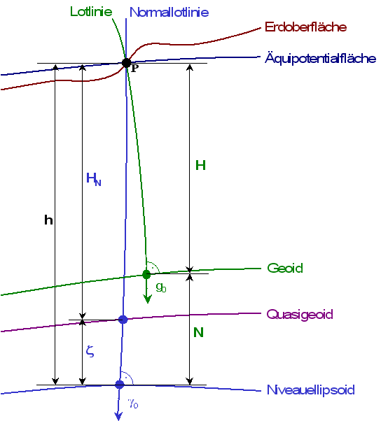 different definitions of elevation (German version)